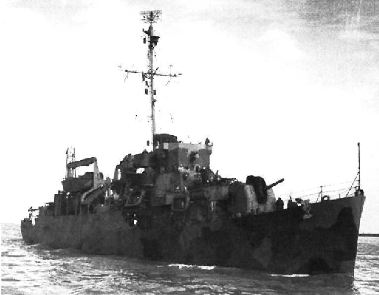 United States Navy high-speed transport USS Jack C. Robinson (APD-72)